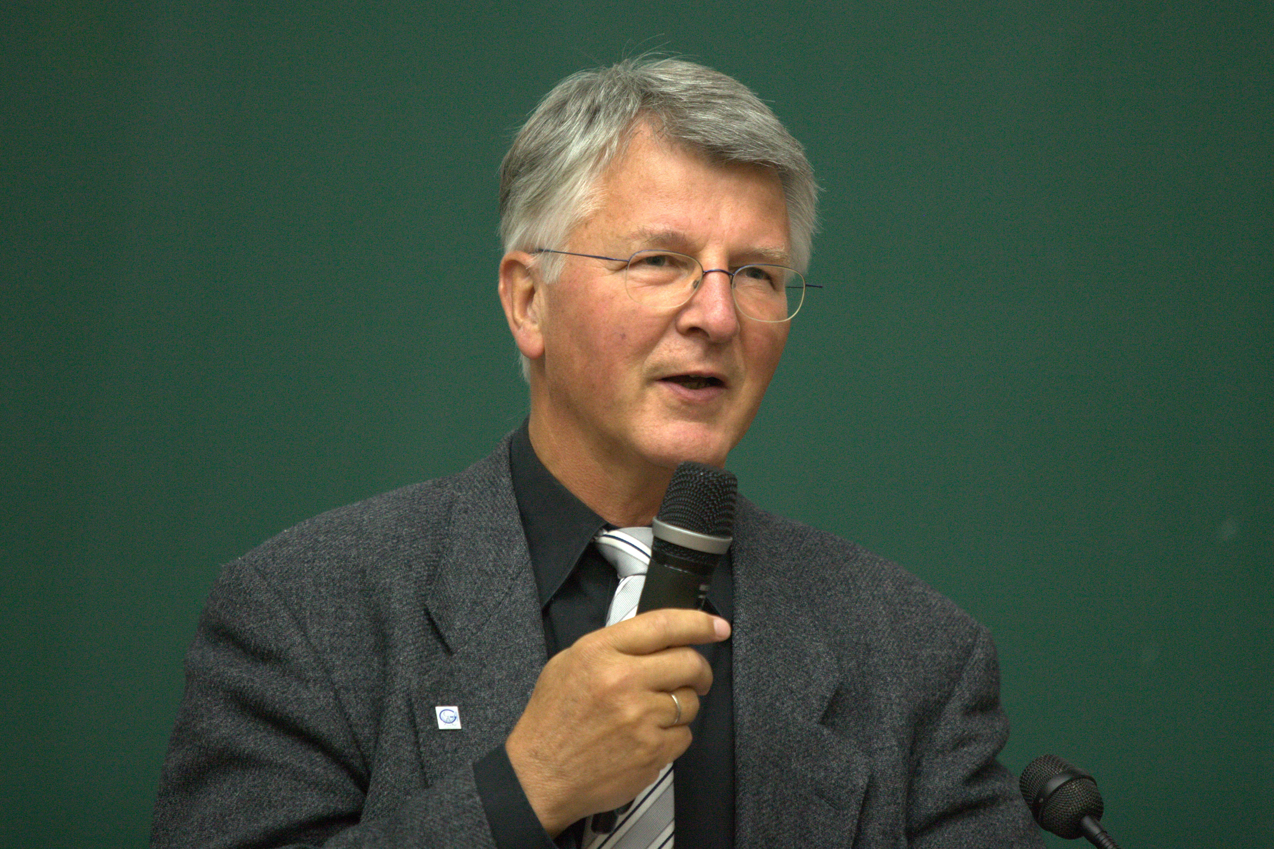 Kurt von Figura giving the opening speech at the Open-Access-Tage 2010 in Göttingen.